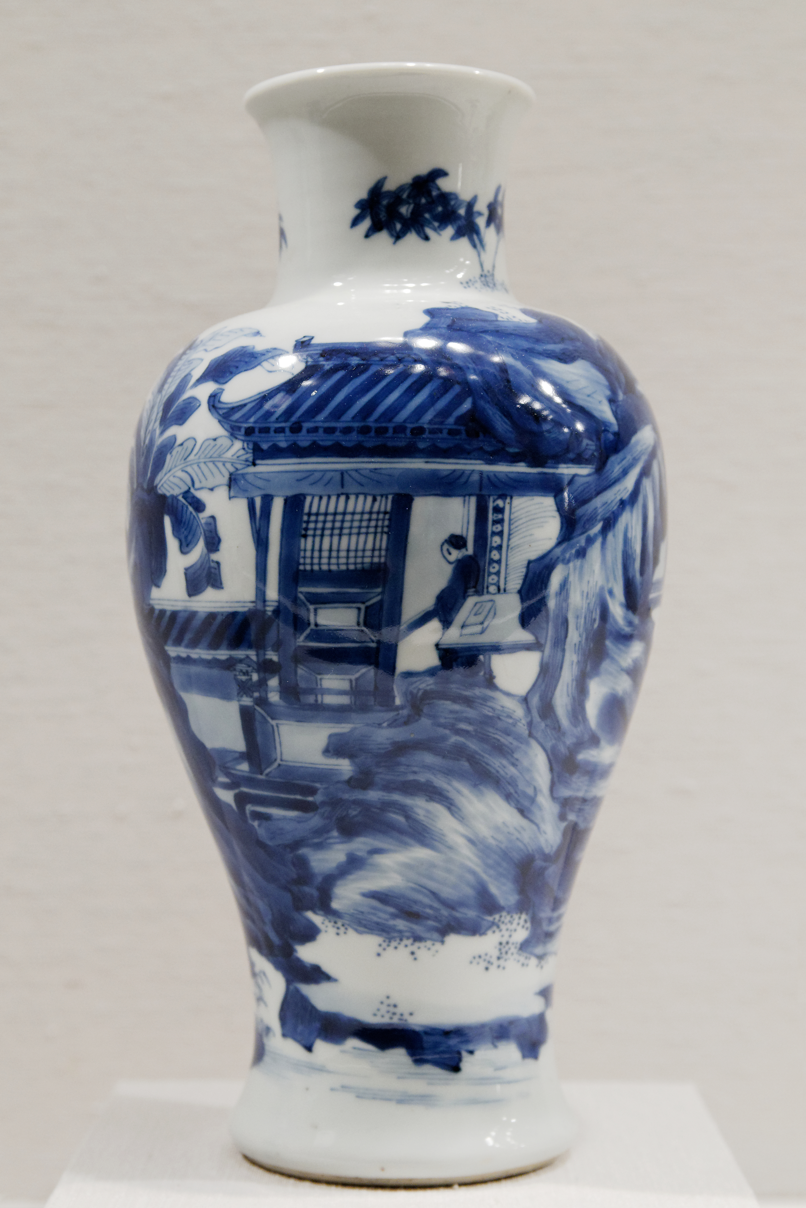 Vase of the Qing dynasty (1644–1911), Kangxi period (1662–1722).